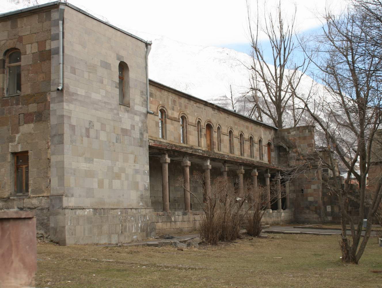 Stepantsminda. Local museum (Prince Kazbegi museum)